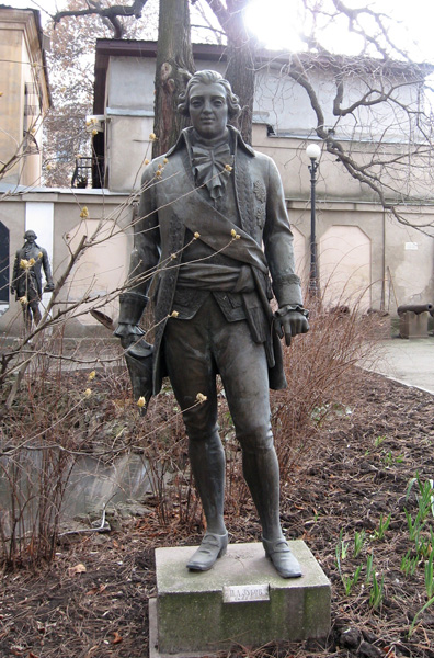 Zubov, statue by Eduards